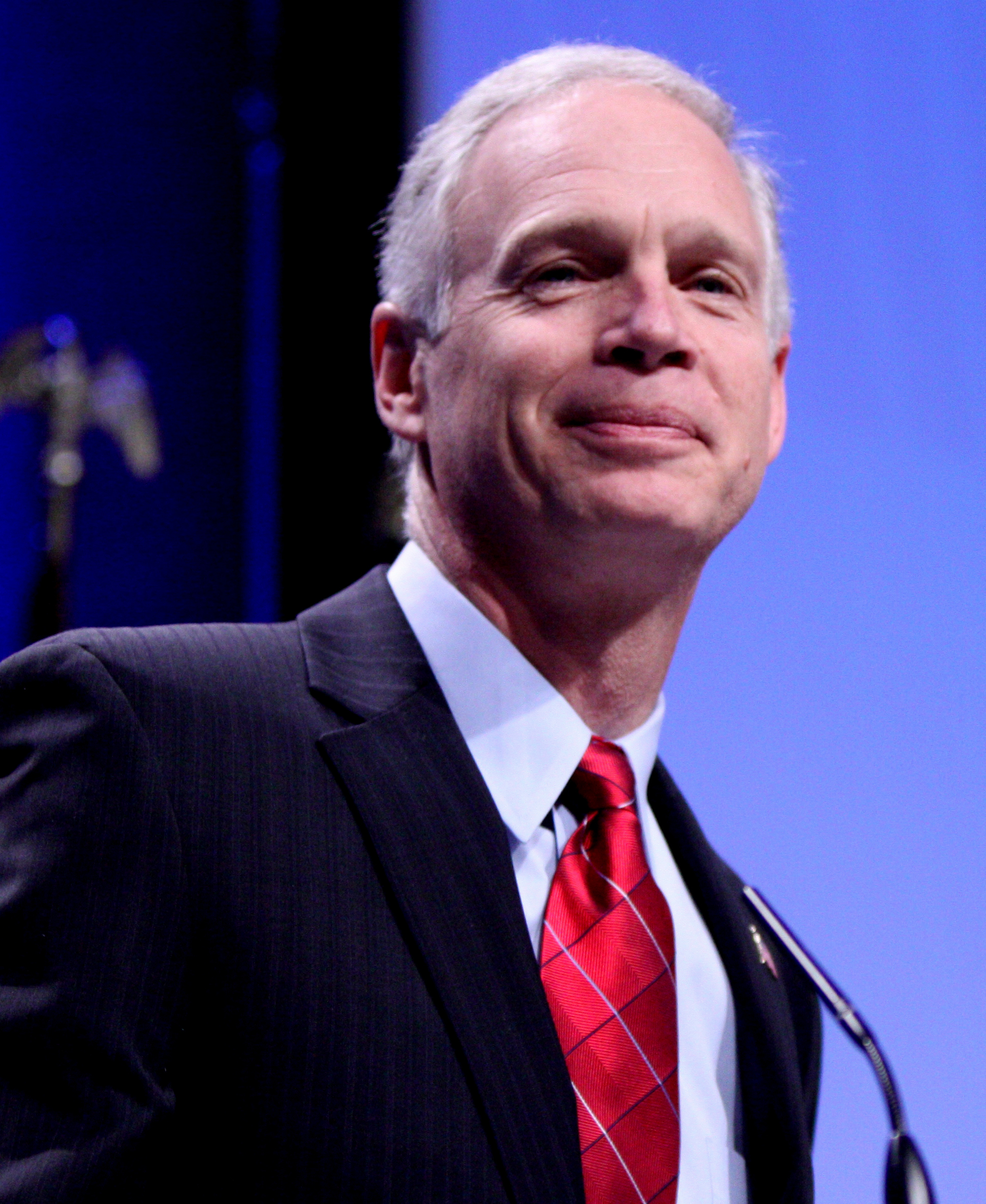 U.S. Senator Ron Johnson speaking at CPAC in Washington D.C. on February 10, 2011.